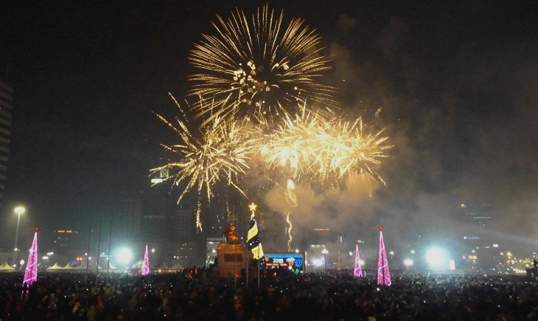 New years eve 2015 in Ulaanbaatar, Mongolia.